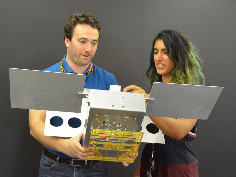 Mars Cube One (MarCO) is a pair of cereal box-size spacecraft that were launched in 2018 along with NASA’s Mars lander InSight. The two tiny CubeSats will help relay communications during the inSight's entry, descent and landing phase. The 6U CubeSats, named 'Mars Cube One' (MarCO) , are identical. They measure 60×10×10 cm with one of them serving as backup. They will flyby Mars during the landing phase and relay InSight‍‍ '​‍s telemetry in real time MarCO is a technology capability demonstration of communications relay system. (Image credit: NASA' s JPL)